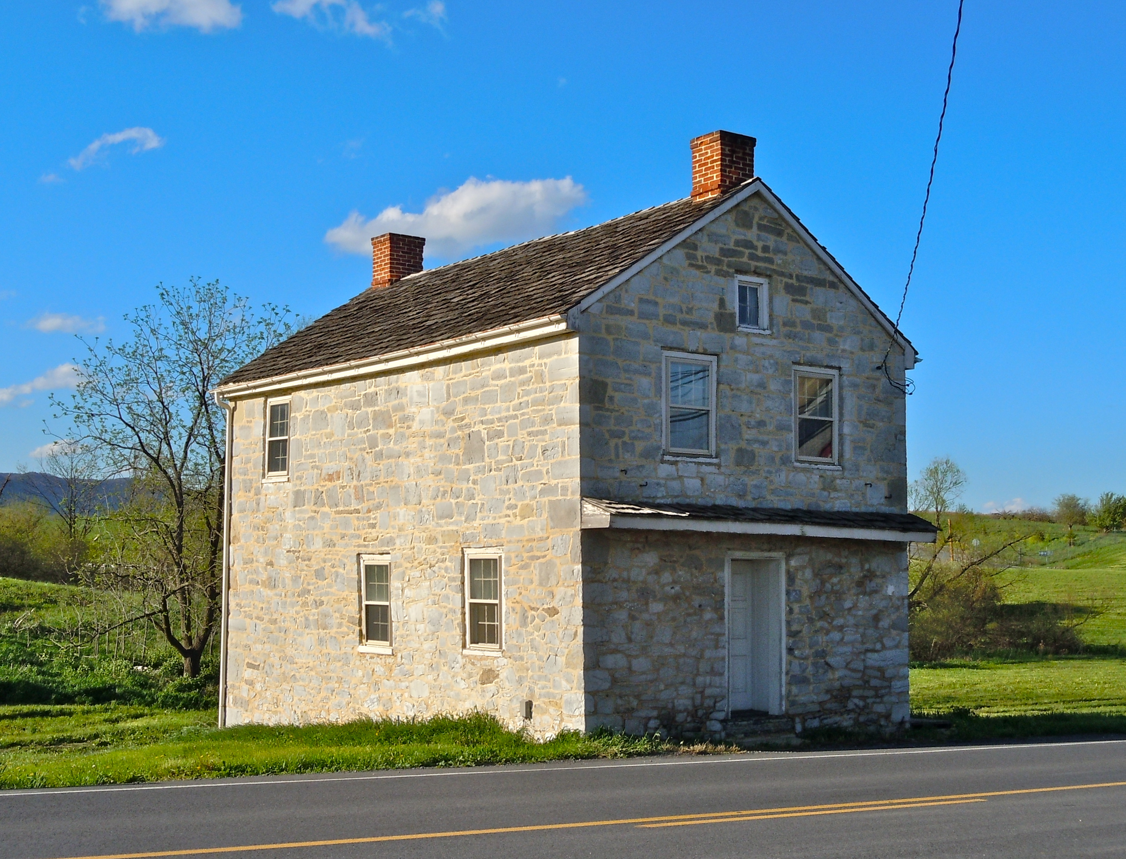 Chambersburg and Bedford Turnpike Road Company Toll House on the NRHP since January 3, 1978. Located west of St. Thomas on U.S. Route 30, in St. Thomas Township, Franklin County, Pennsylvania. In the early 19th century the tollroad was rebuilt from the famous Forbes Road and was the main route from Philadelphia to Pittsburg. Road later developed into the Lincoln Highway and then US 30.